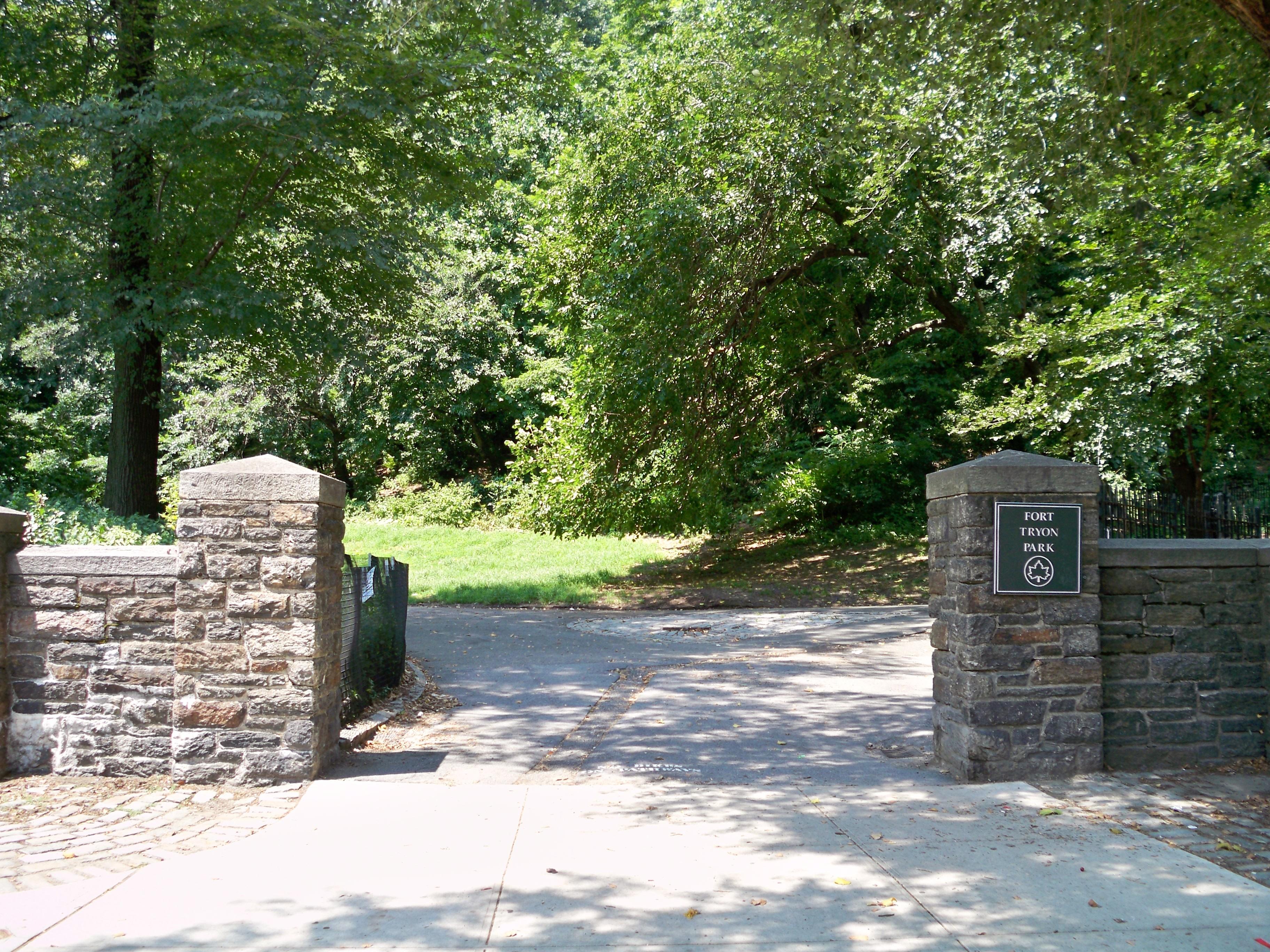 Entrance to Fort Tryon Park.